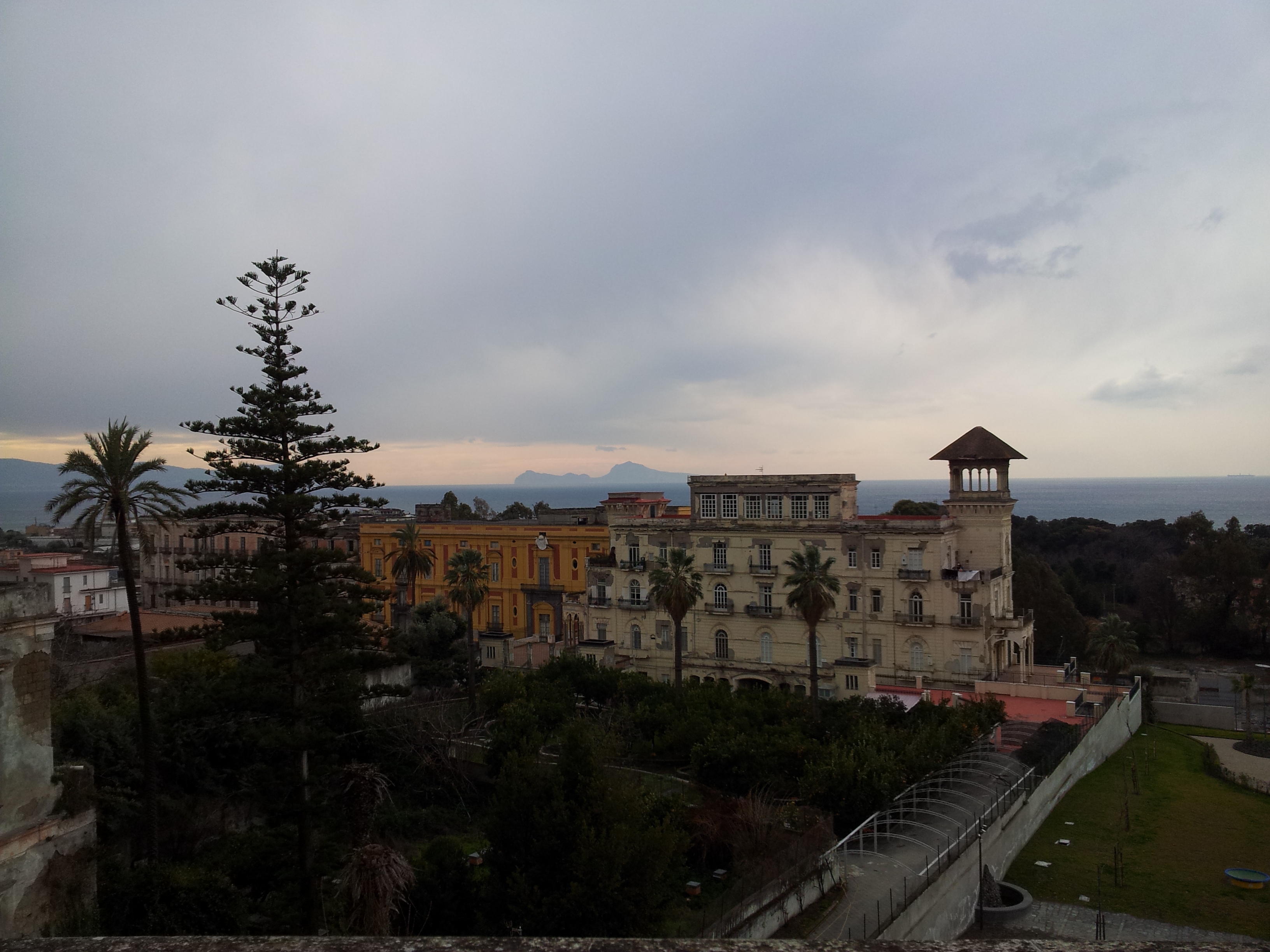 A partial view of the Miglio d'Oro (The Golden Mile) from Villa Ruggiero: Villa Battista on foreground and Villa Favorita with its park behind. In the background the Isle of Capri